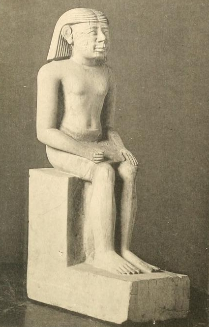 Sitting statuette of the ancient Egyptian nomarch, Gegi, of the 6th Dynasty. Limestone, found in Saqqara in 1884, now in Cairo Egyptian Museum, CG72.